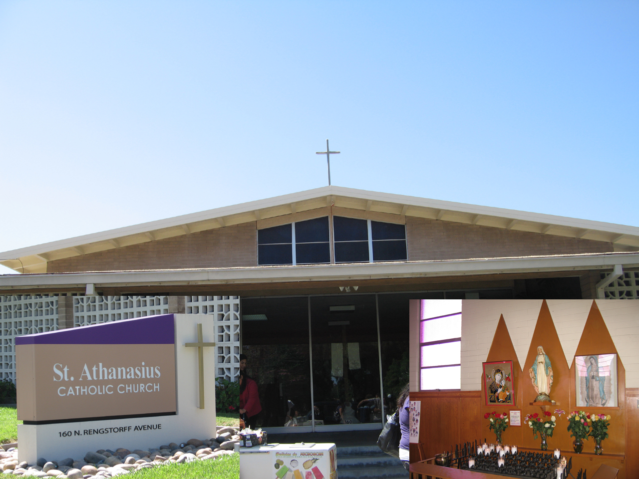 St. Athanasius Church, Mountain View, CA USA